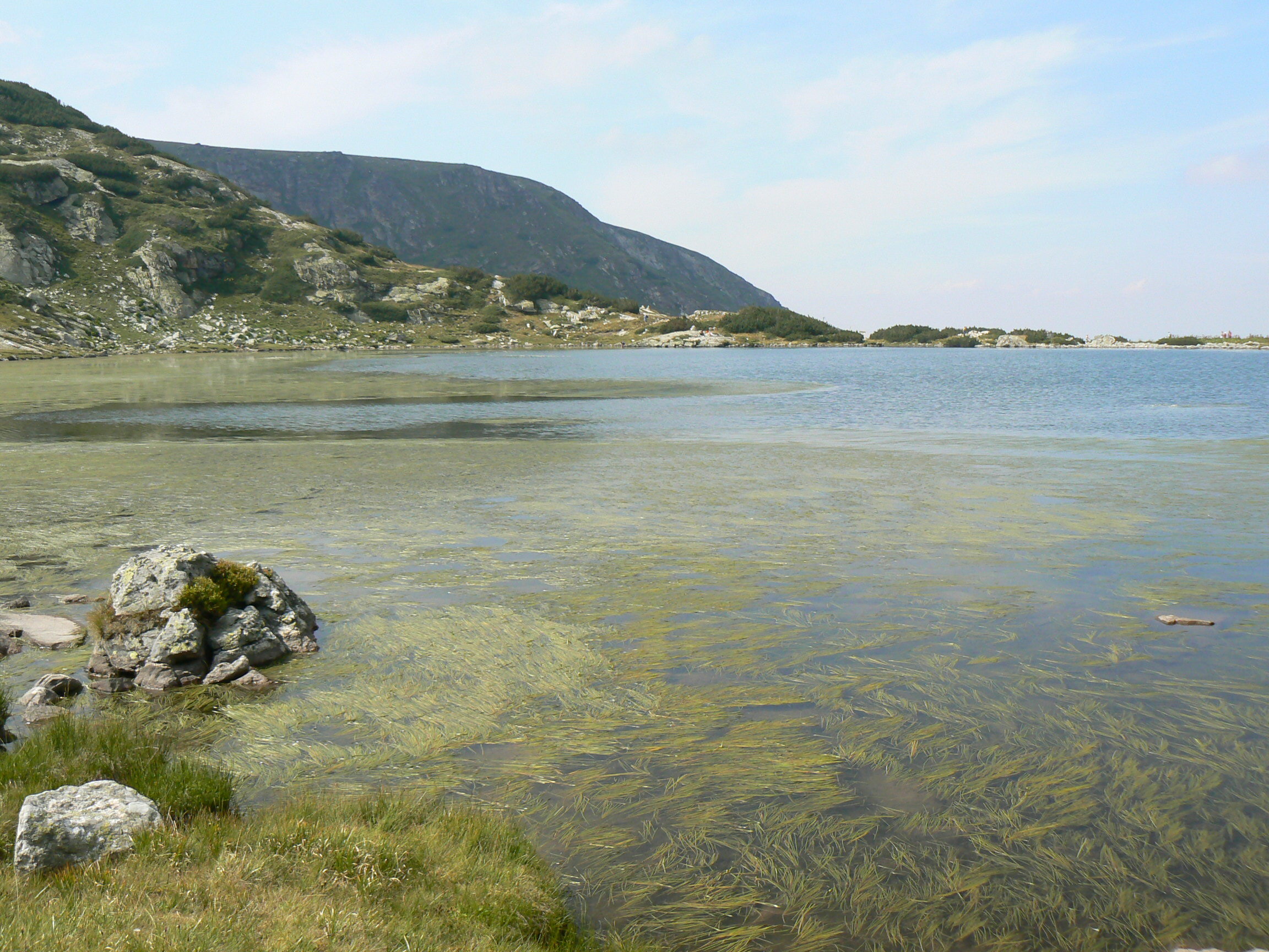 Ribnoto ezero (The Fish Lake) - one of the Seven Rila Lakes